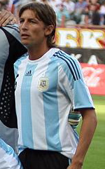 Gabriel Heinze, Argentina national football team 2009